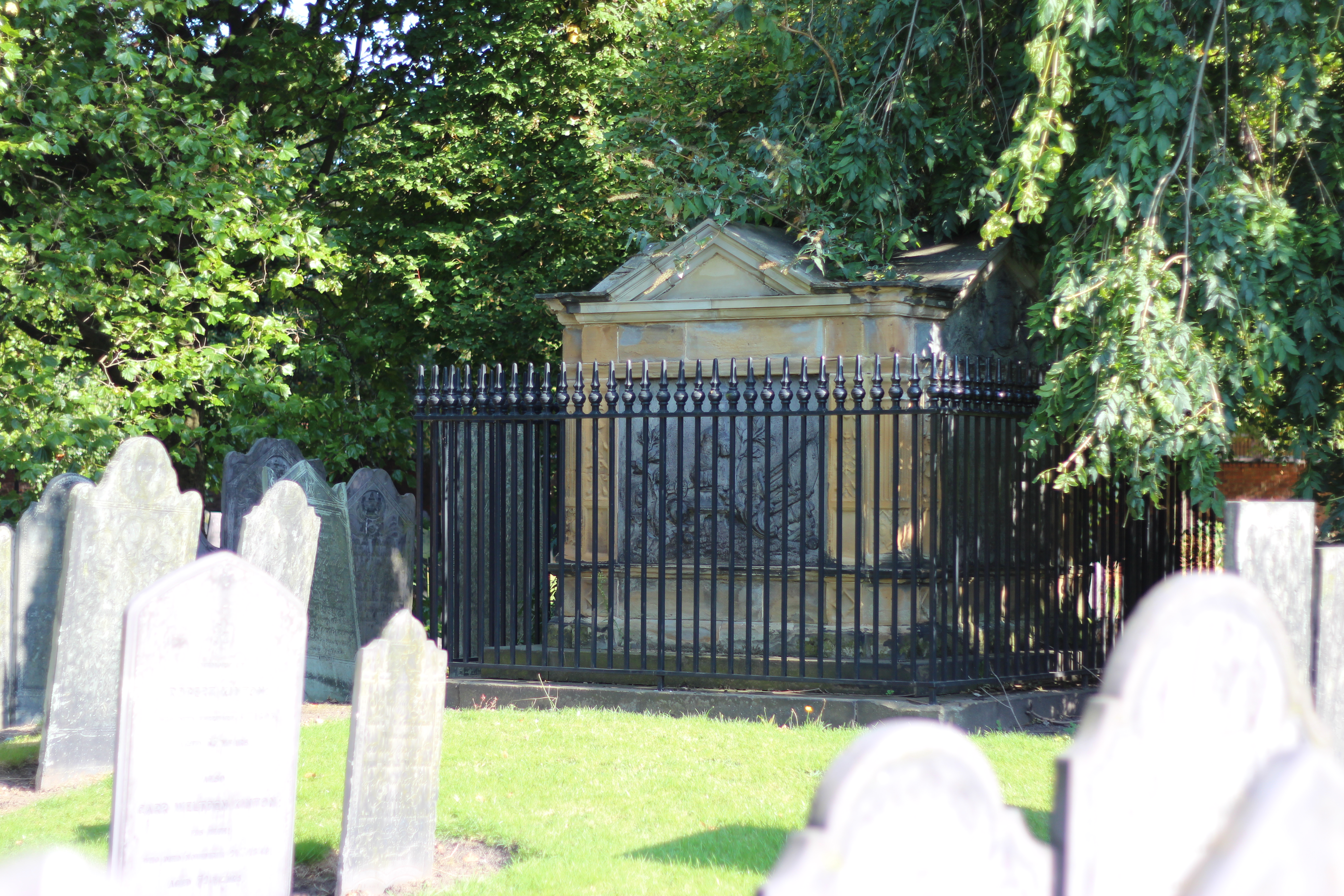 TOMB OF ANDREW LORD ROLLO TO THE NORTH EAST OF ST MARGARET'S CHURCH Wikidata has entry Q17553738 with data related to this building.